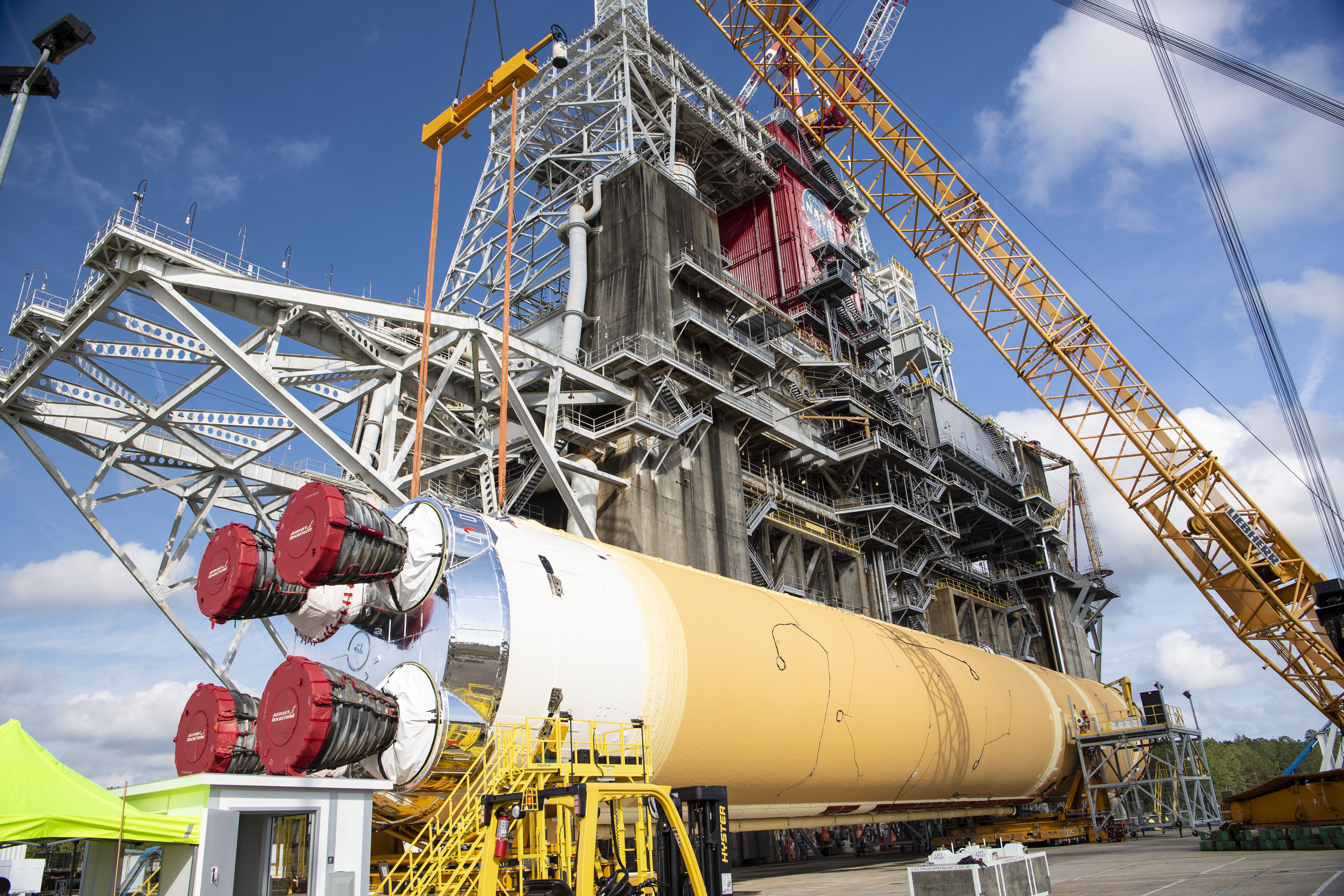 The first flight core stage for NASA’s new Space Launch System rocket arrived at Stennis Space Center on Jan. 12 for a series of tests prior to its maiden Artemis I flight. The core stage was transported from Michoud Assembly Facility in New Orleans to the B-2 Test Stand dock at Stennis aboard NASA’s Pegasus barge. Soon after arrival, the stage was rolled off of Pegasus onto the B-2 Test Stand tarmac. After the stage is lifted and installed on the B-2 stand, it will undergo a series of “Green Run” systems test that represent the first integrated testing of its sophisticated systems.